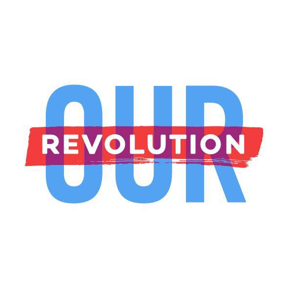 Our Revolution